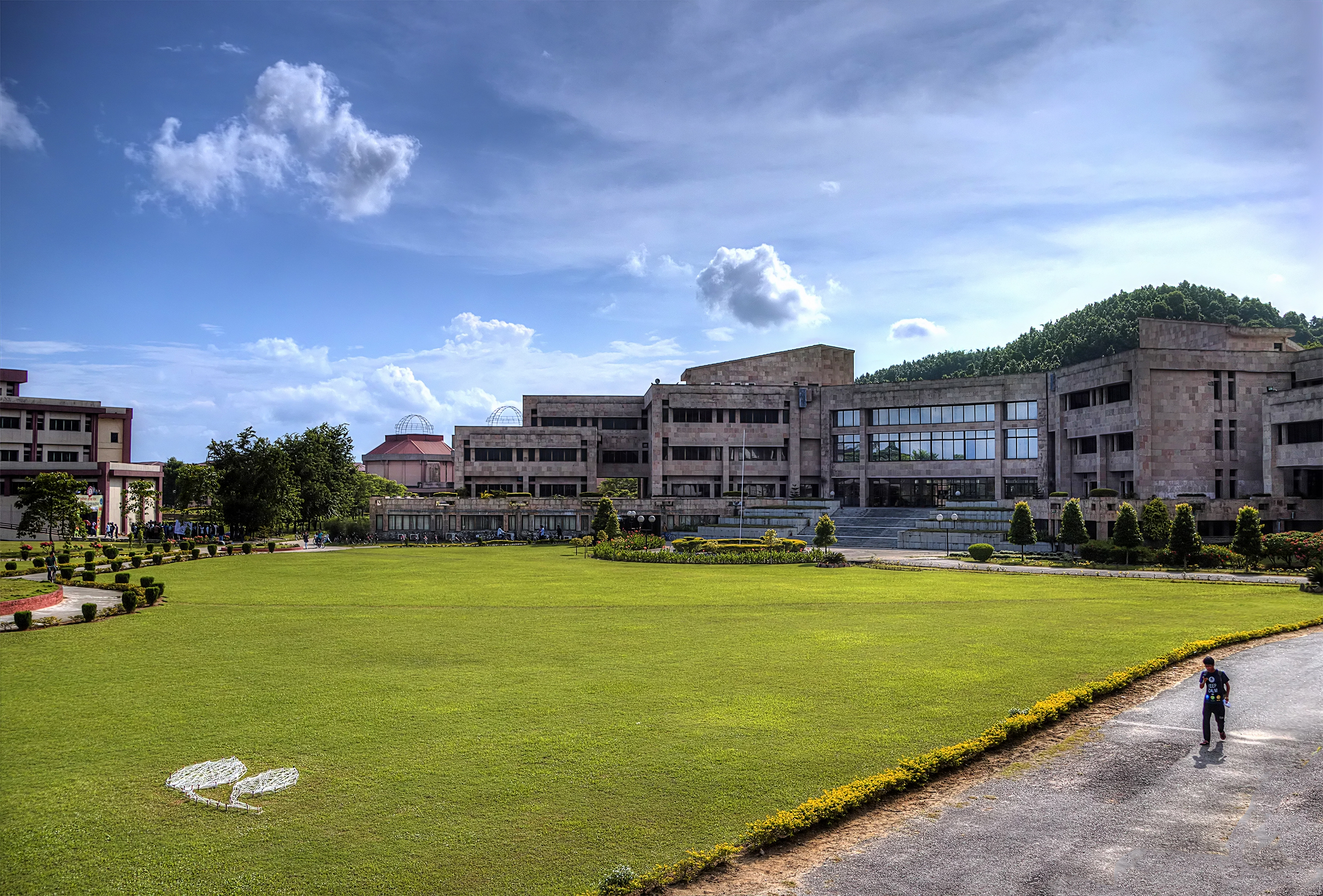 Indian Institute of Technology Guwahati is an autonomous engineering and technology-oriented institute of higher education established by the Government of India, located in Guwahati, in the state of Assam in India.